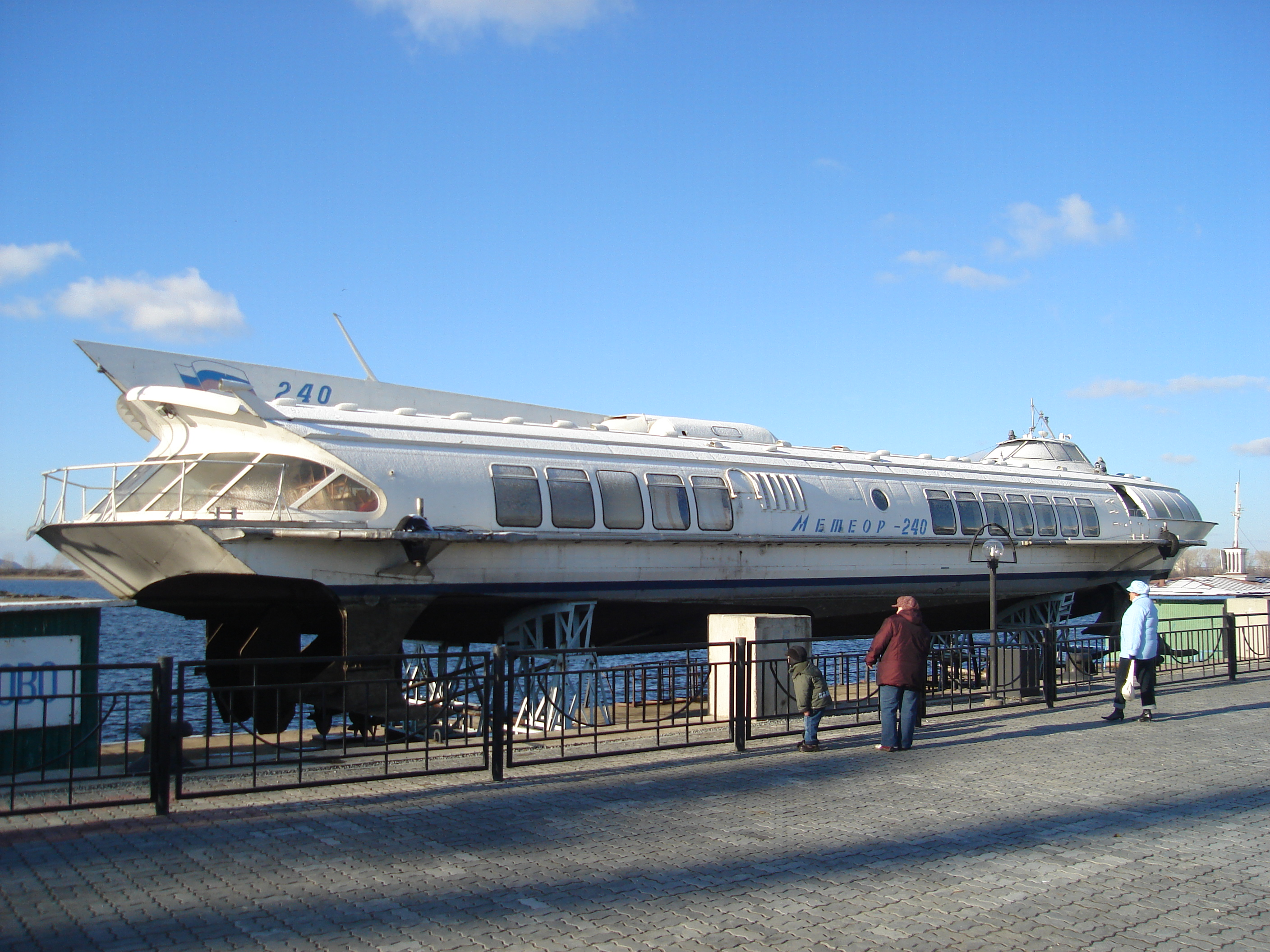 Hydrofoil is ready to spend a winter